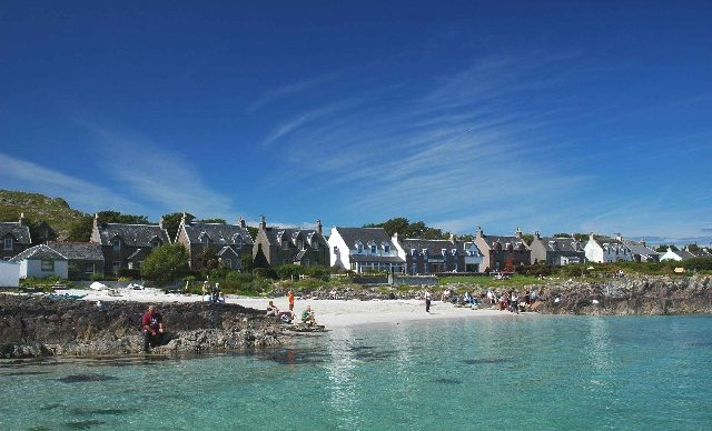 Iona village viewed from a short distance offshore.